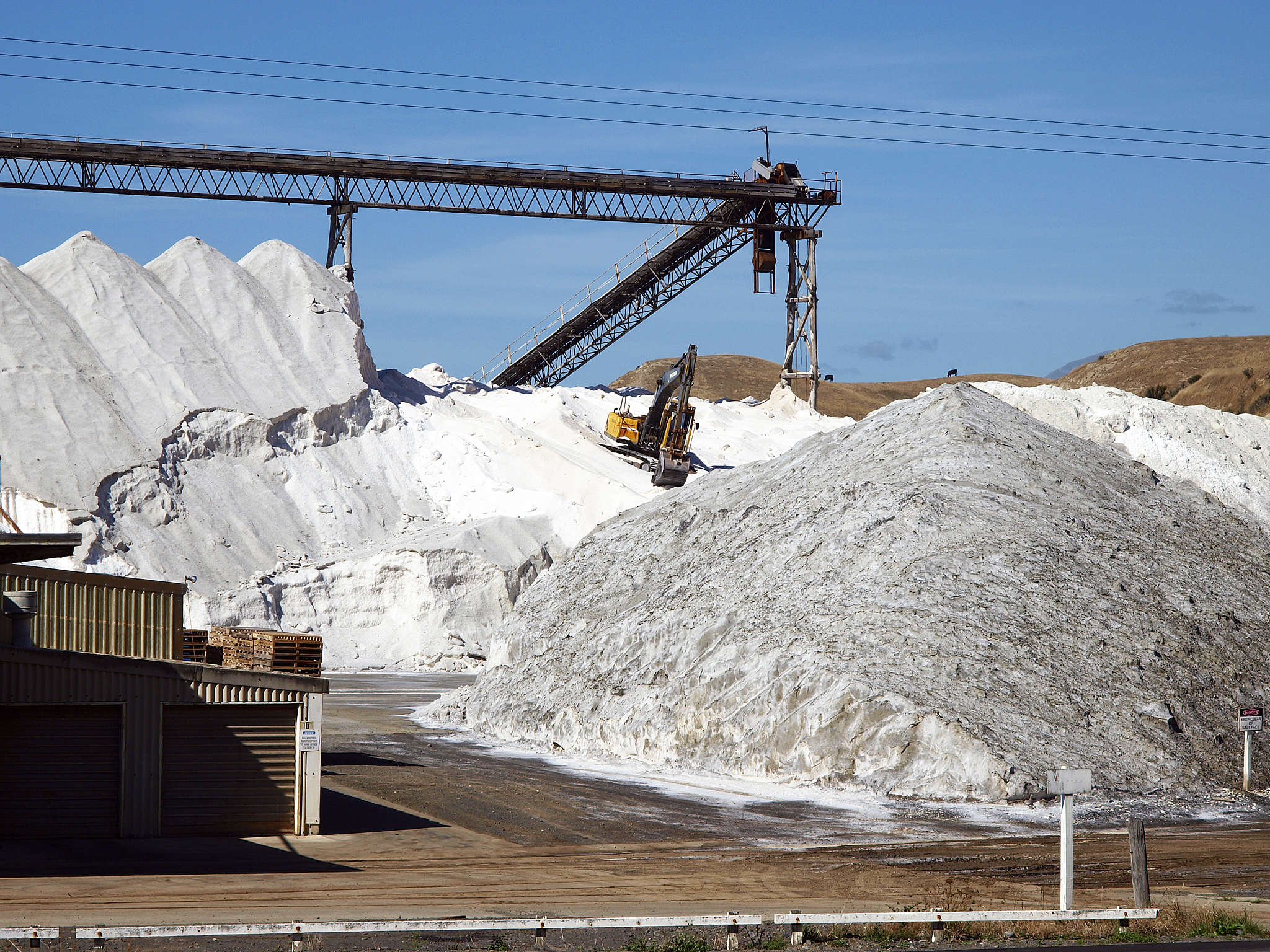 Salt Factory at Lake Grassmere, Marlborough Region, South Island, New Zealand